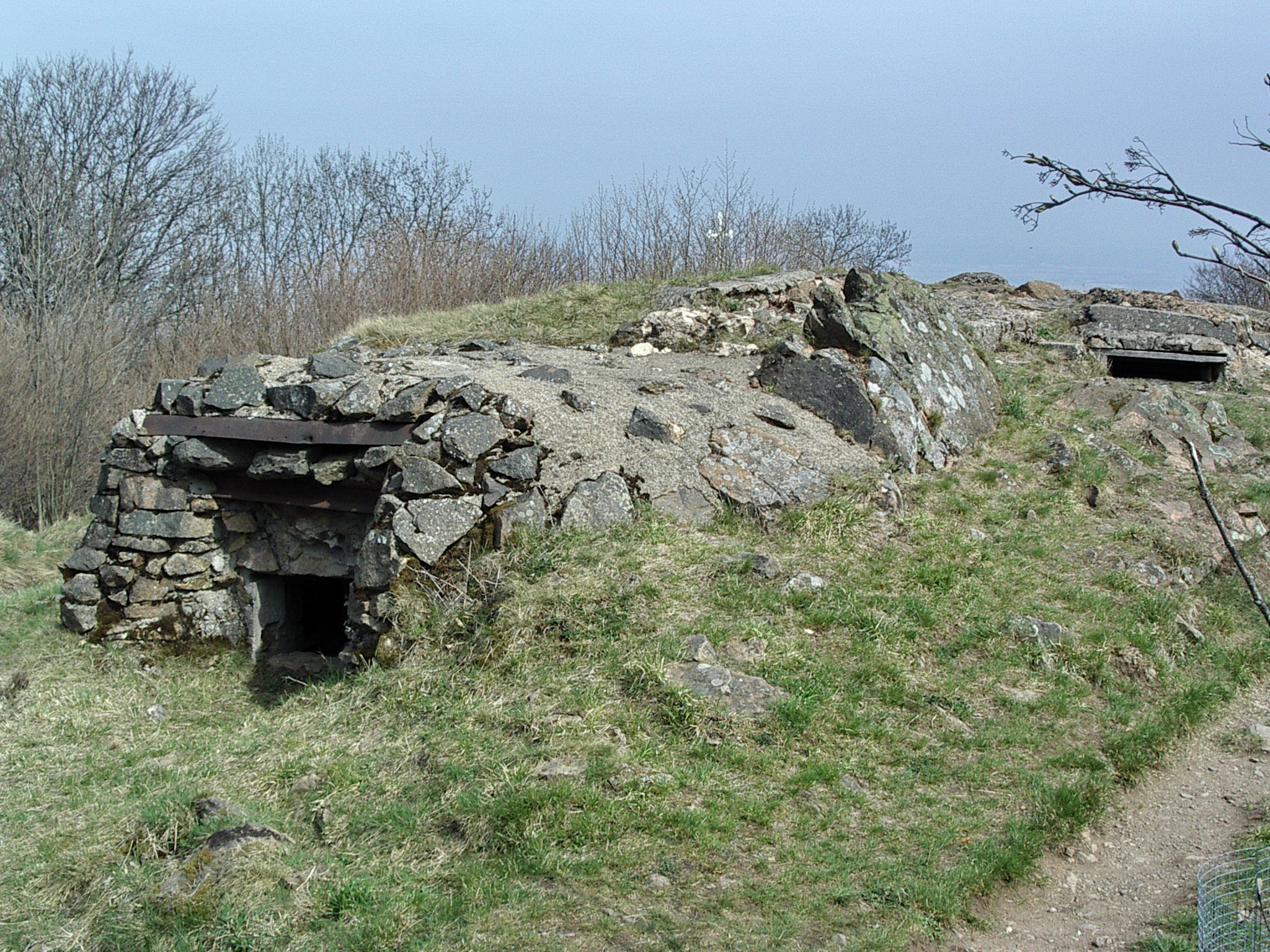 Hartmannswillerkopf battle field (WWI), "Feste Rohrburg", Alsace, France